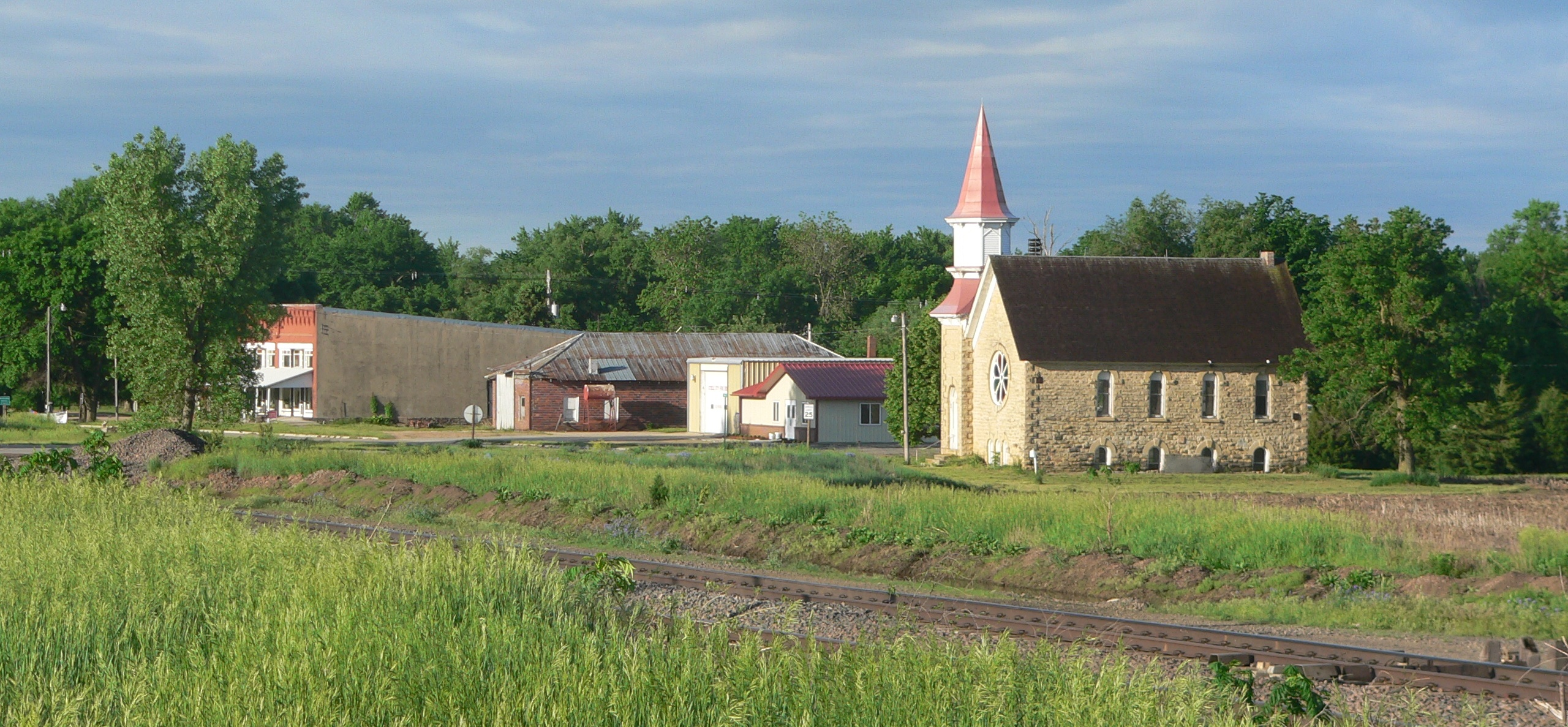 Steele City, Nebraska: Ida Street, seen from the northeast.